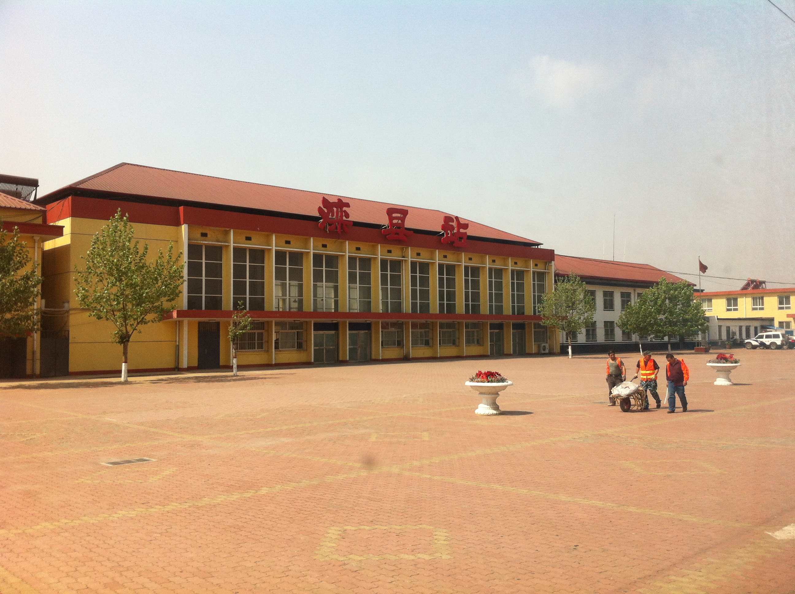 K498 stopping at Luanxian. Looks massive...